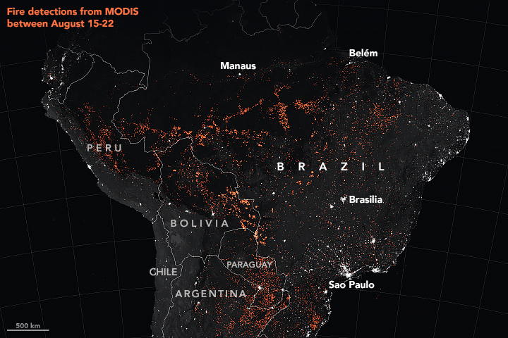 Fire detections from MODIS between 15 August 2019 and 22 August 2019